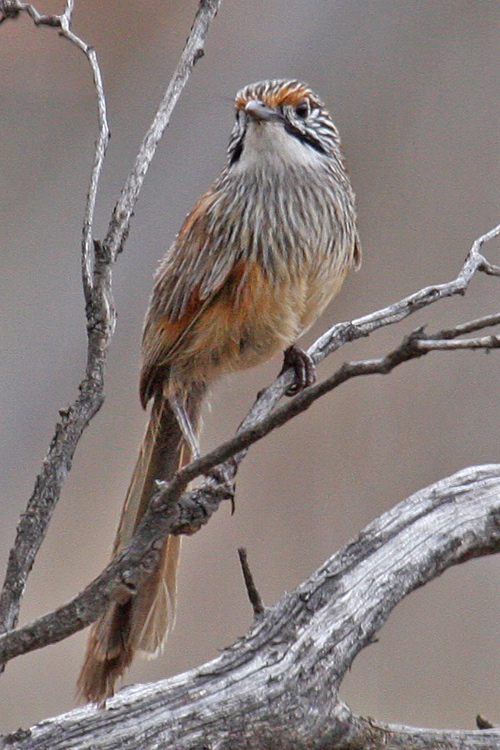 Striated Grasswren (Amytornis striatus). 23/10/2007 Gluepot Reserve